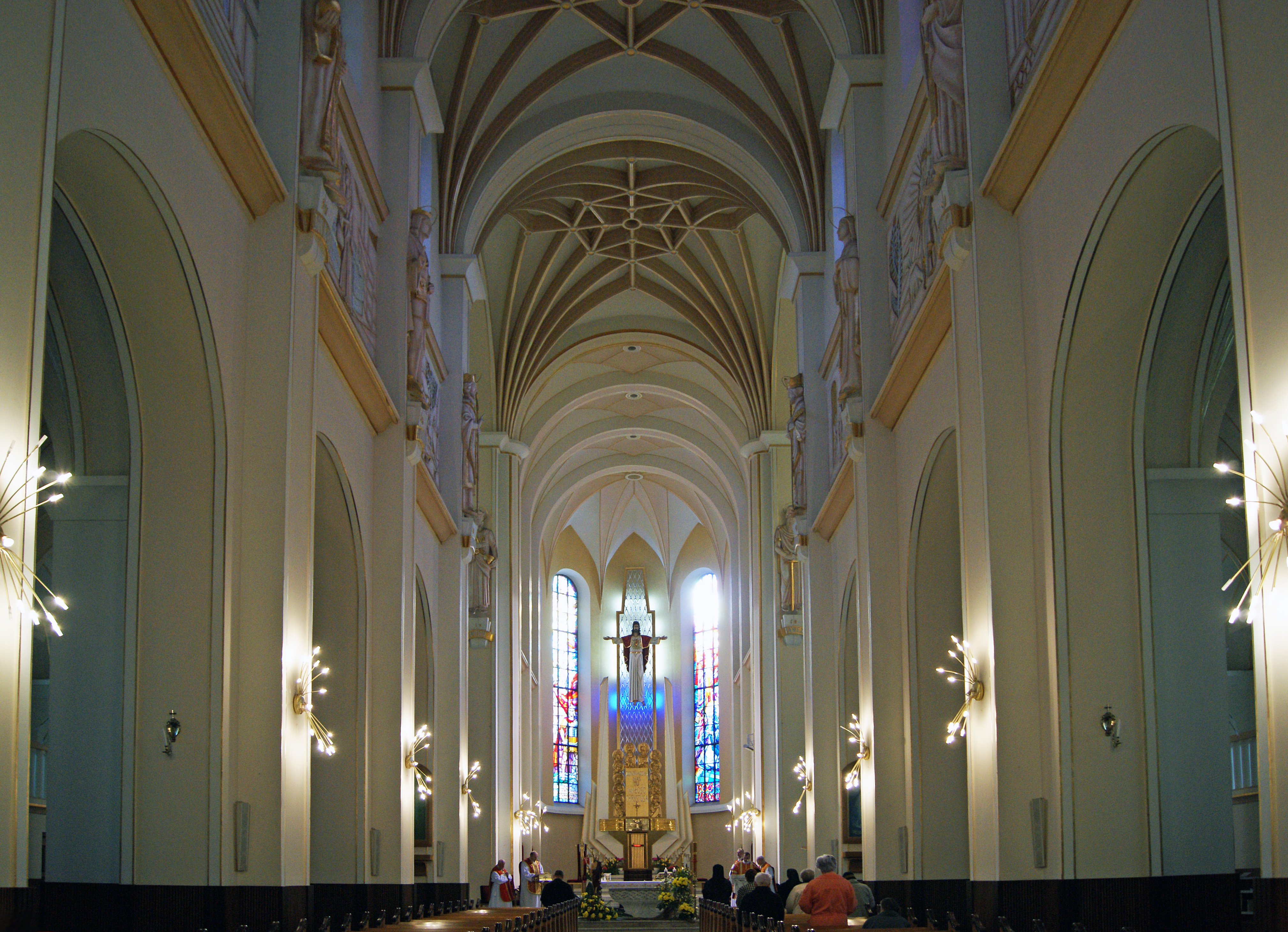 Church of the Sacred Heart of Jesus (interior), 3 Glowackiego street, City of Trzebinia, Lesser Poland Voivodeship, Poland